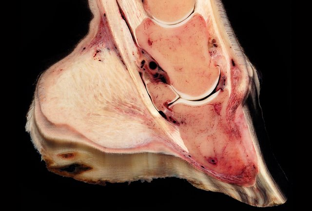 Sagittal section (colour preserved embedding by HC Biovision - Dr. Christoph von Horst) of a hoof with severe laminitis